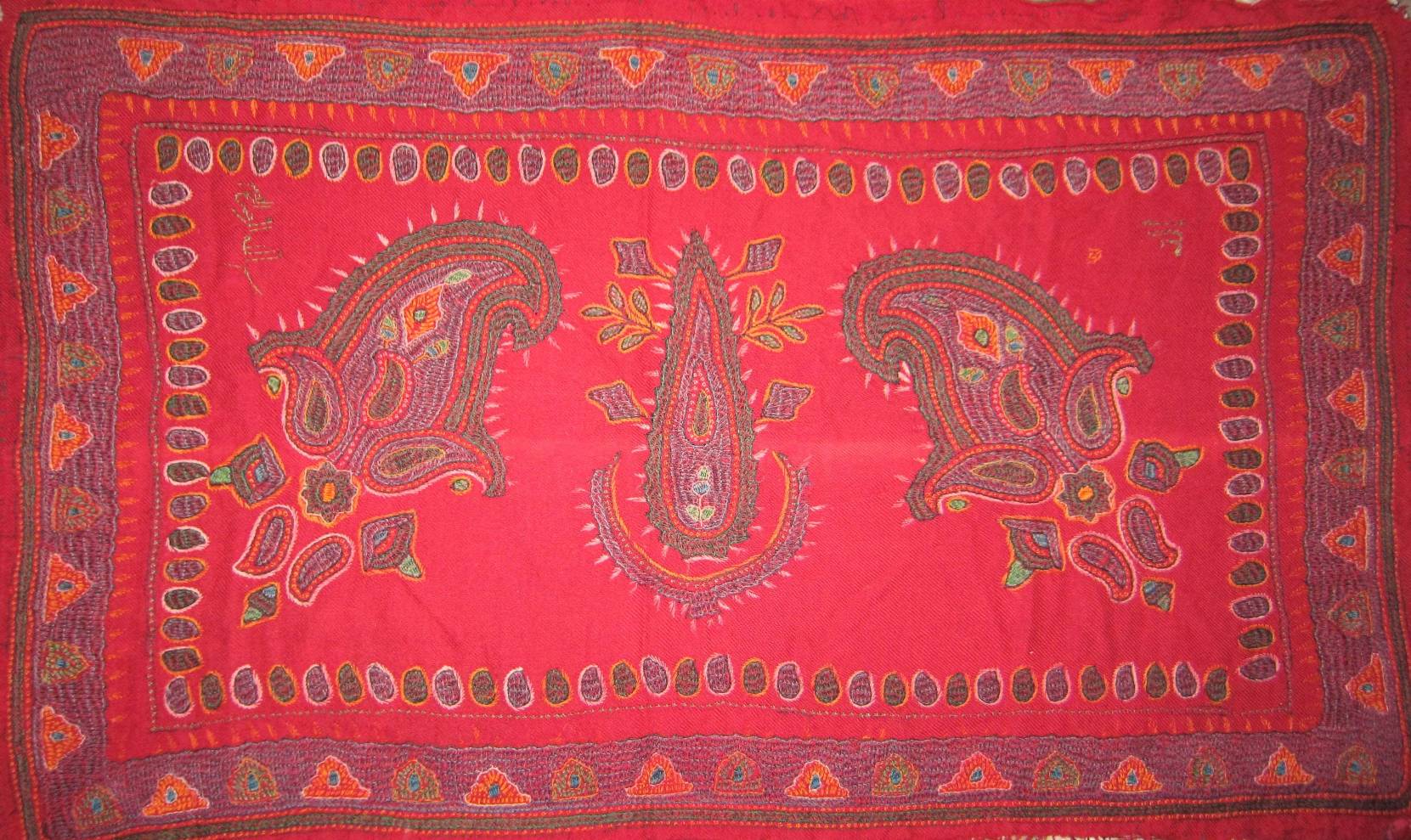 Patteh, a souvenir of Kerman (Iran).